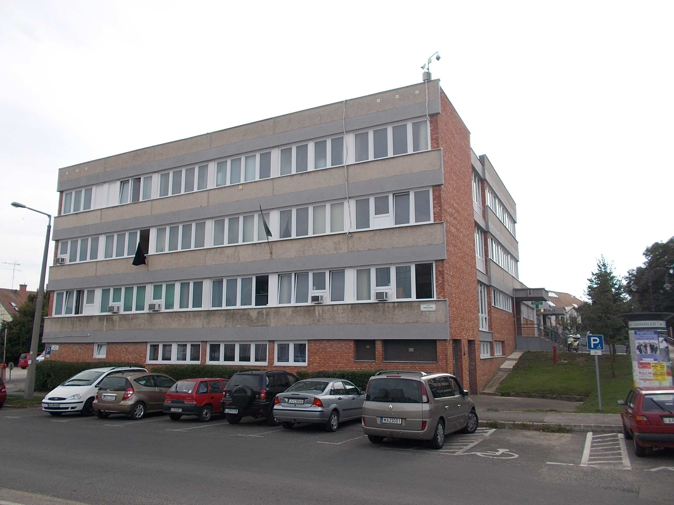 Tormay Károly Medical Center. - Petőfi Street, Gödöllő, Pest County, Hungary.